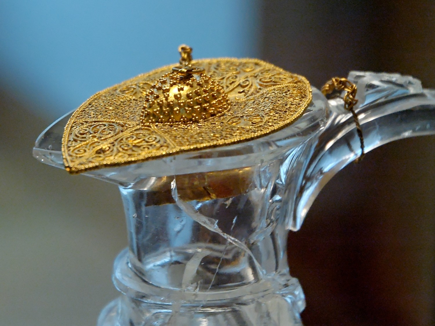 Ewer with birds, detail of the lid. Body: rock crystal (Fatimid art, late 10th century–early 11th century); lid: filigreed gold (Italy, 11th century). From the Treasure of Saint-Denis.